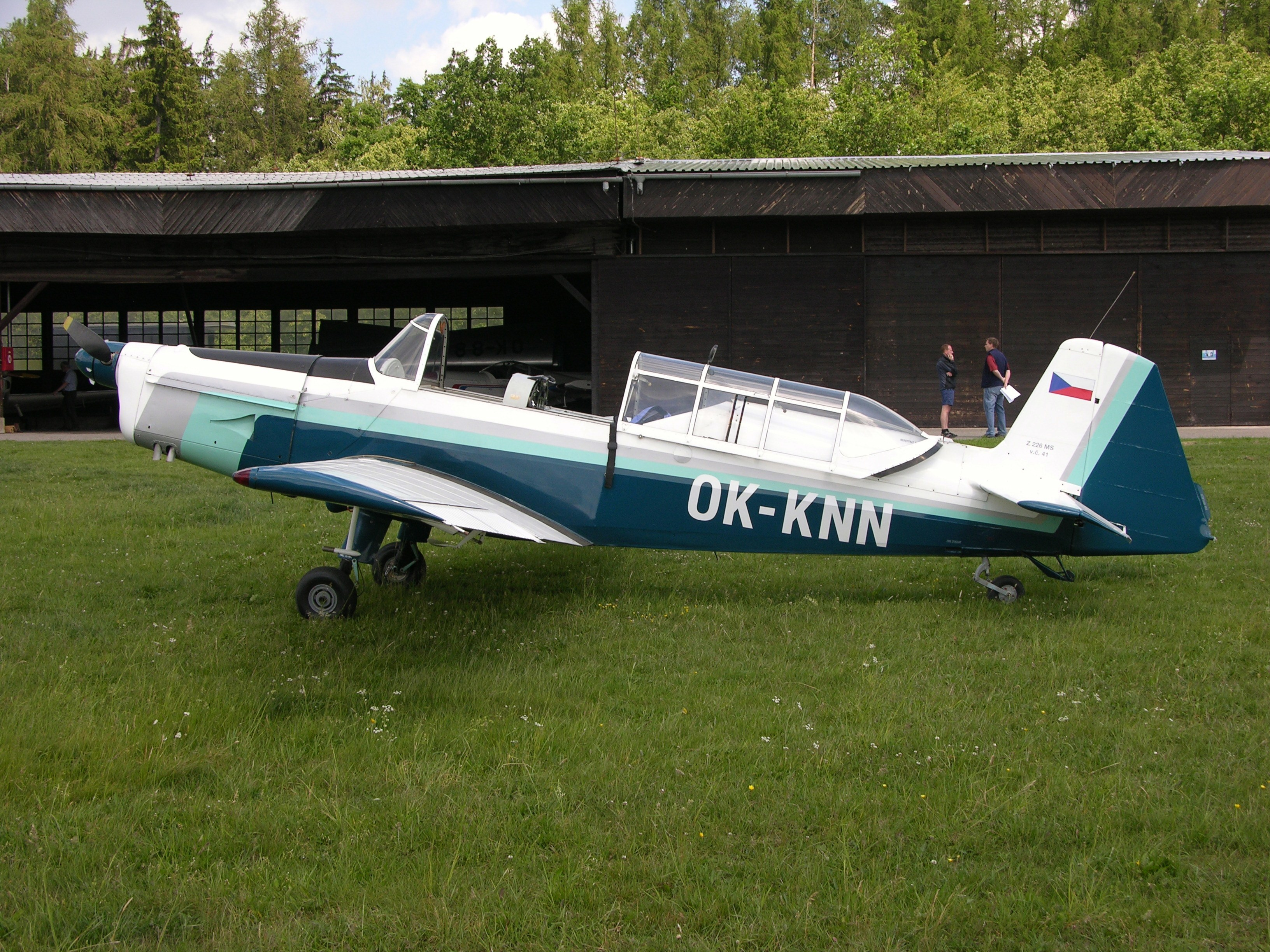 Another fling club stalwart